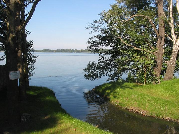 Großer Wünsdorfer See. The Große Wünsdorfer See is a German lake in the town Zossen, district Teltow-Fläming, state Brandenburg, Germany.